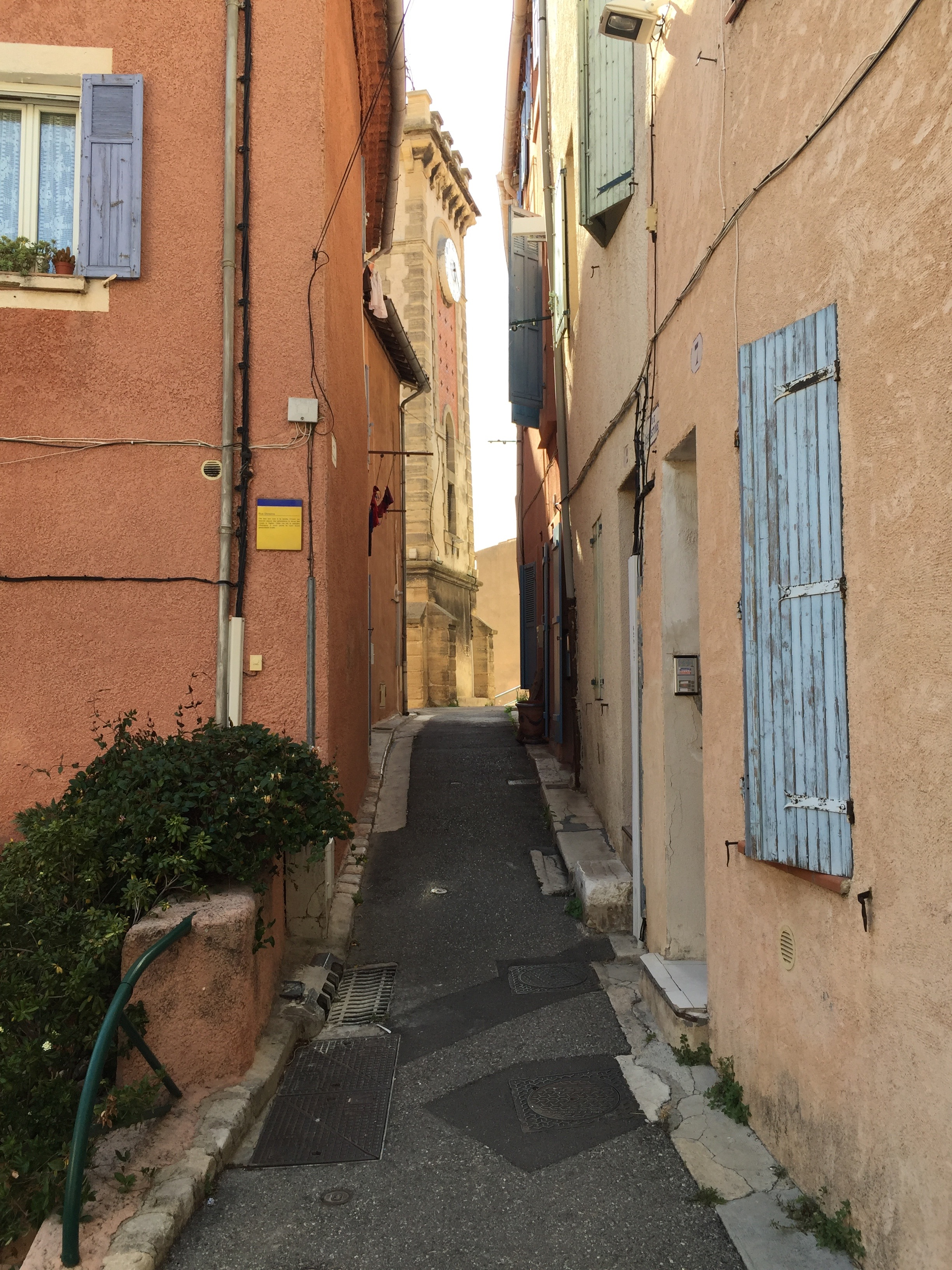 Little street in Aubagne city center